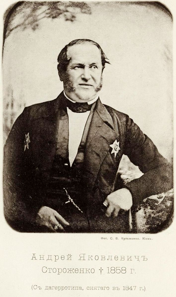 Andriy Jakovych Strozhenko(1791-1858)